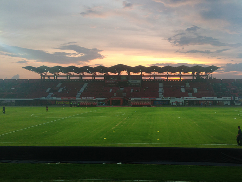 Newer version of Dipta stadium, taken on Bali United vs Perseru match Liga 1 2018 matchday 3, 7 April 2018